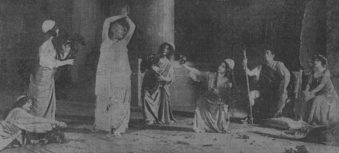 La Tragédie de Salomé